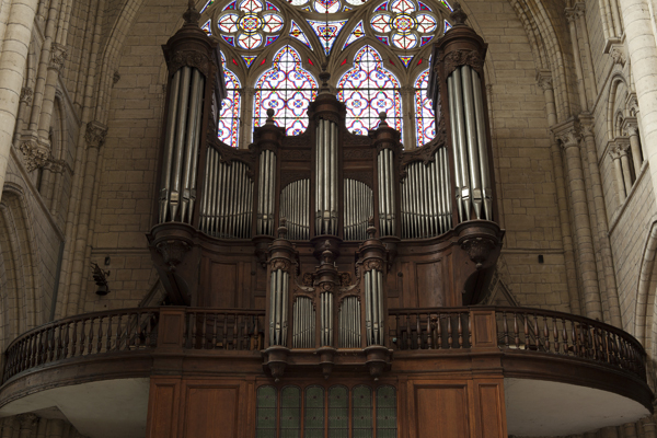 Sens; Cathédrale Saint-Etienne; Bourgogne, Yonne; France; ref: PM_103541_F_Sens; Cultural heritage; Cultural heritage/Cathedral; Europe/France/Sens; Wiki Commons; photo: Paul M.R.Maeyaert; © Paul M.R. Maeyaert